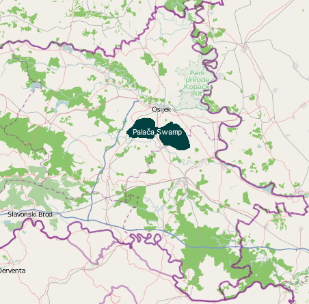 Up to the XIX century and construction of Bobota Canal the region was covered under Palača Swamp. This is proximate representation of the area covered.